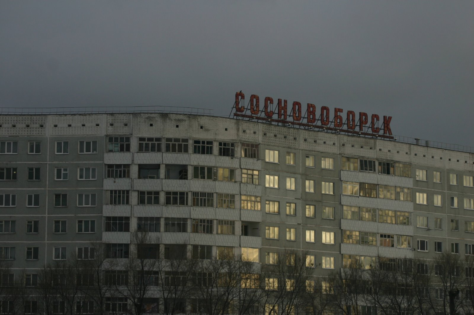 Nine-storey residential building with the inscription "Sosnovoborsk" (Yunost st., 19 / 9 Pyatiletki st., 19)